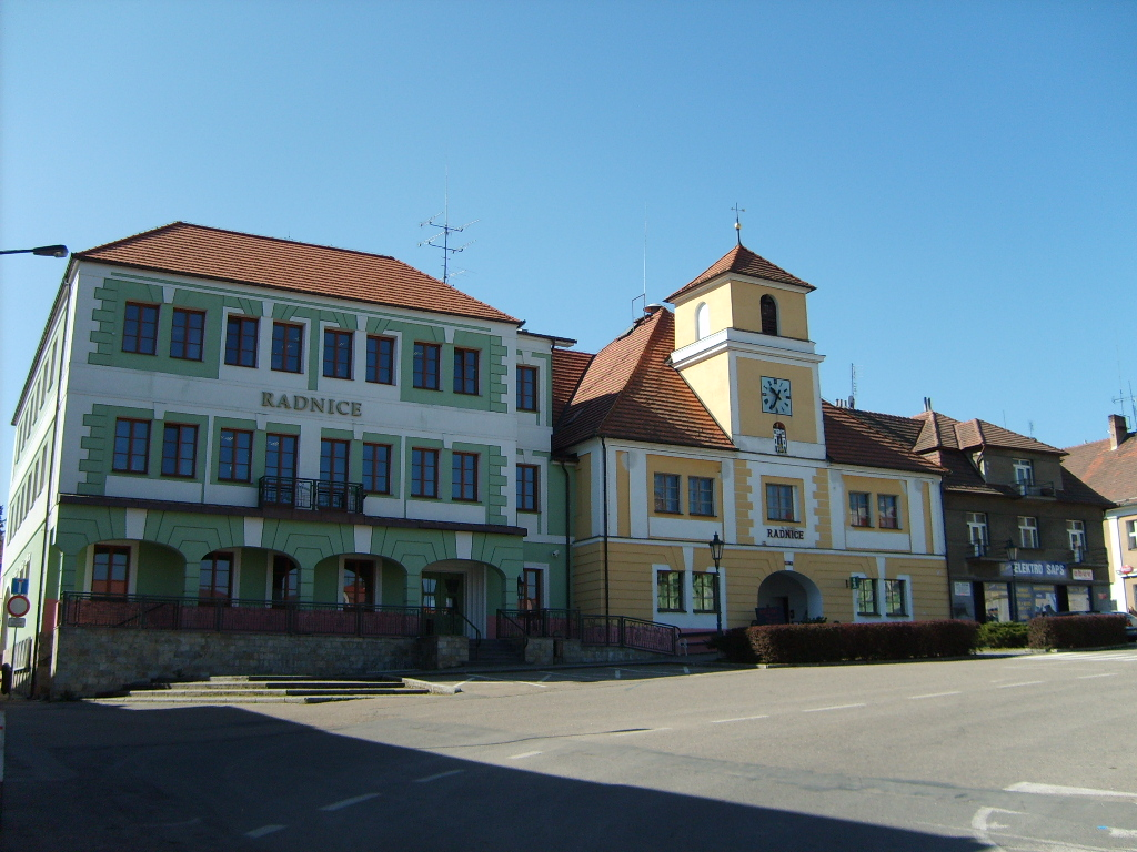 Town hall in Votice, Czech Republic.